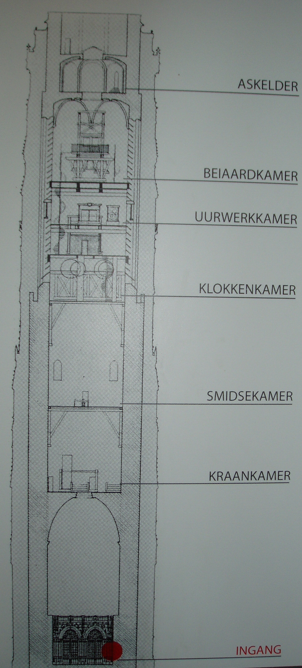 Slideview of the cathedral Sint-Rombouts indicating the six internal floors.